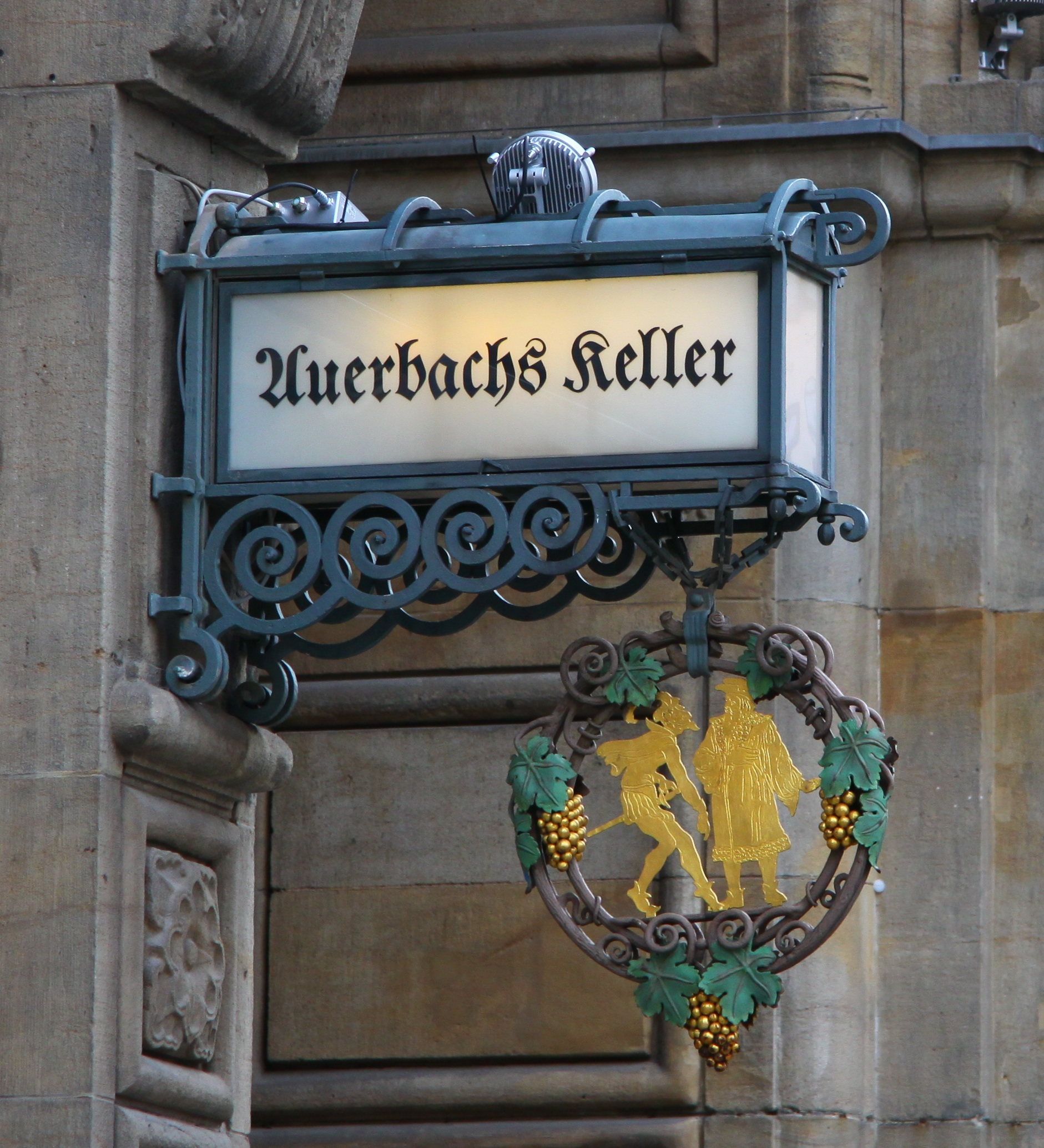 Sign auf Auerbachs Keller, Leipzig.